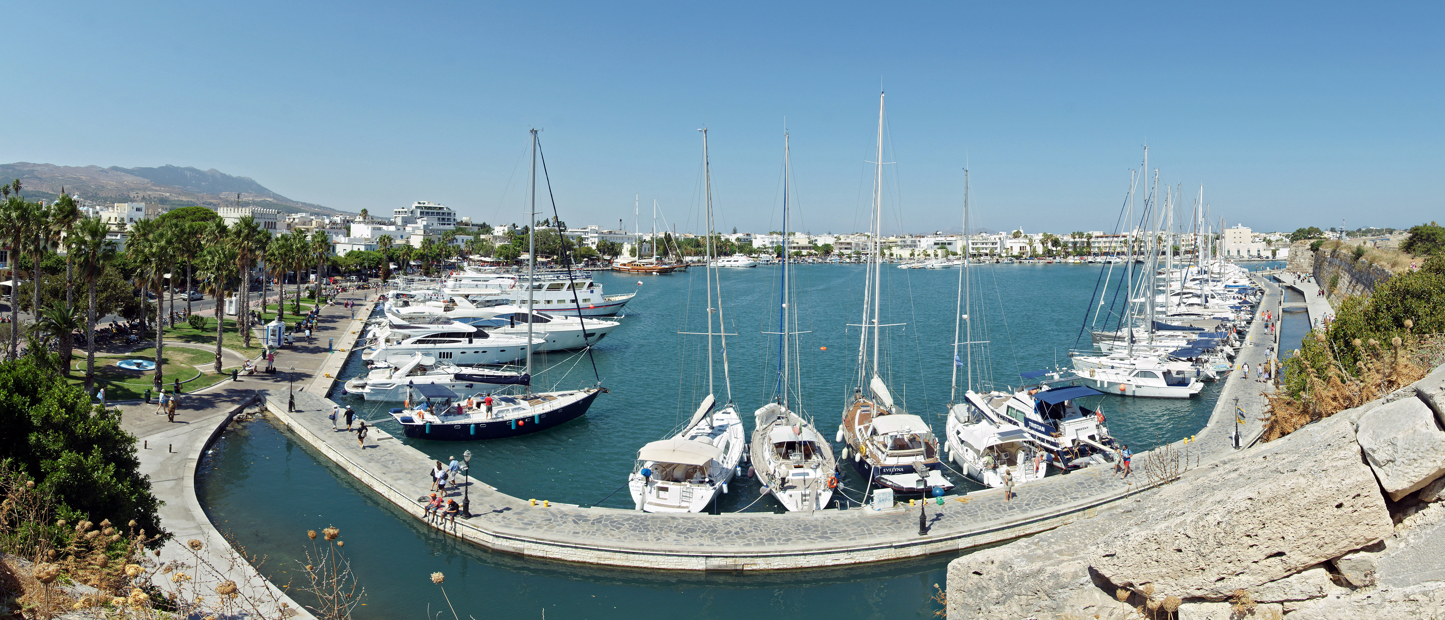 The harbour of Kos seen from Kos Castle.